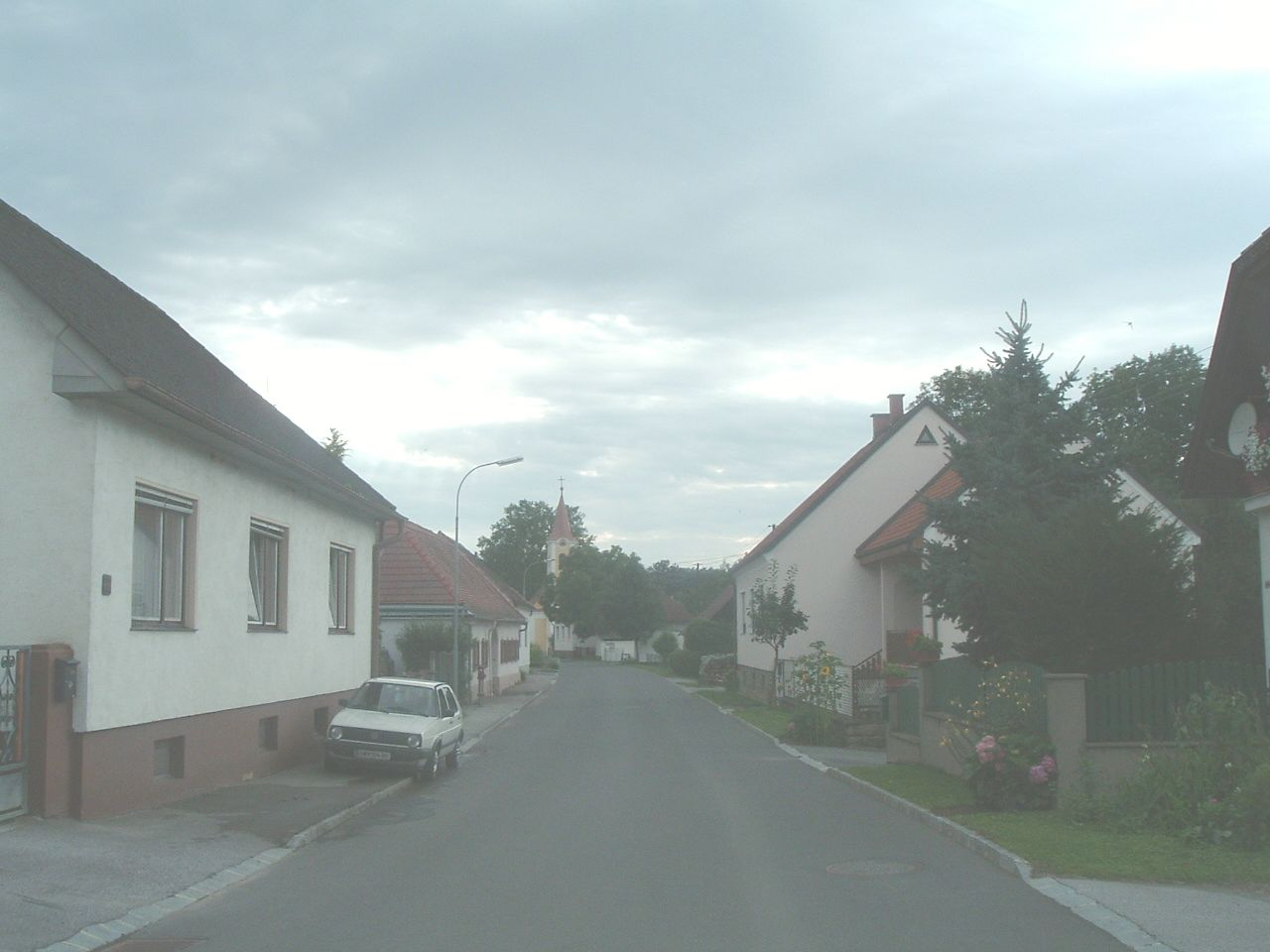 Eisenzicken (Németciklény), Burgenland